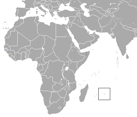 Rodrigues Flying Fox (Pteropus rodricensis) range